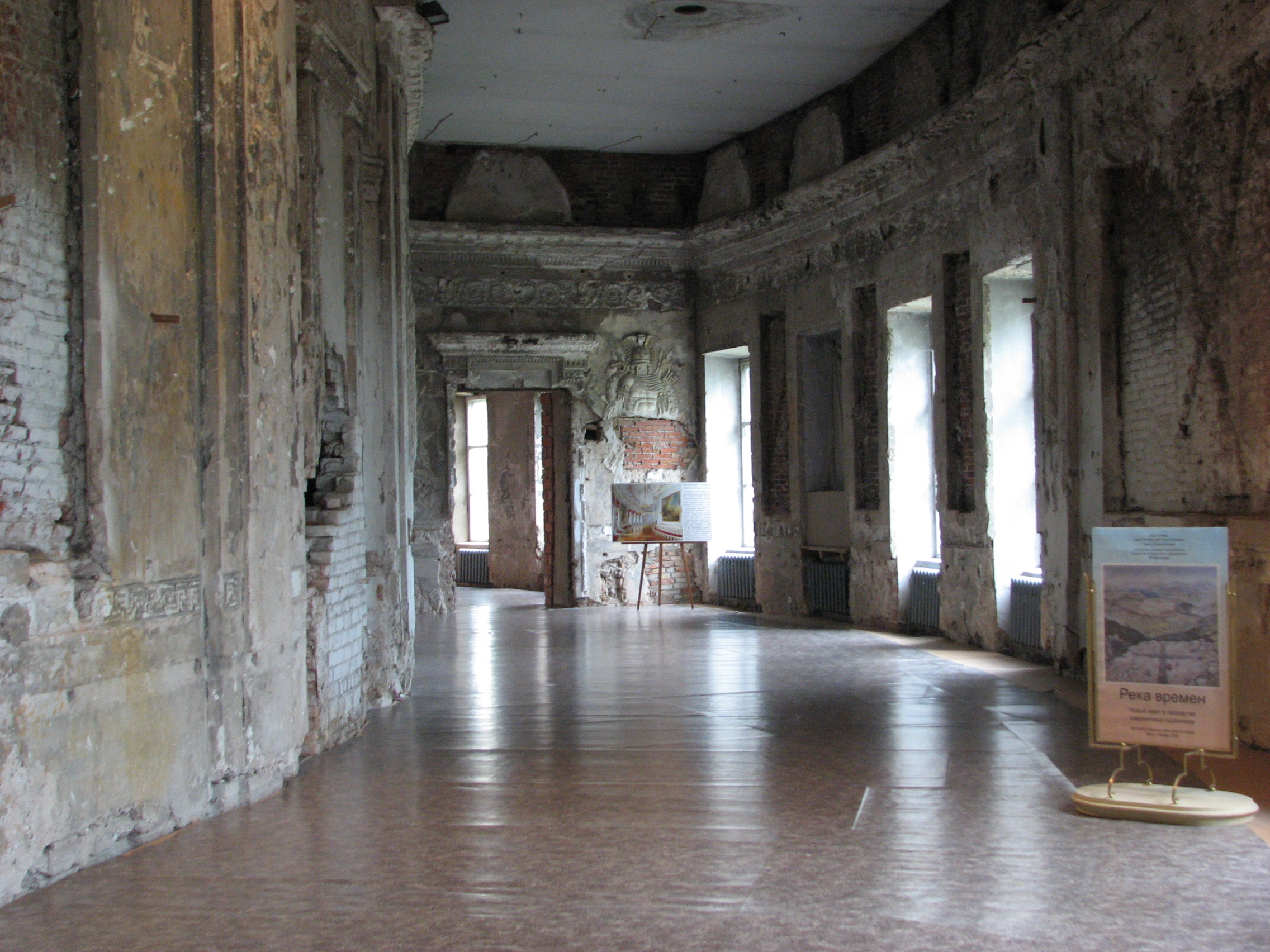 Gatchina Palace, Chesmen gallery